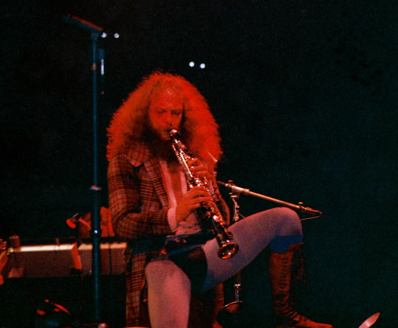 Singer Ian Anderson from Jethro Tull - September, 1973 Chicago Stadium - the "Passion Play" tour